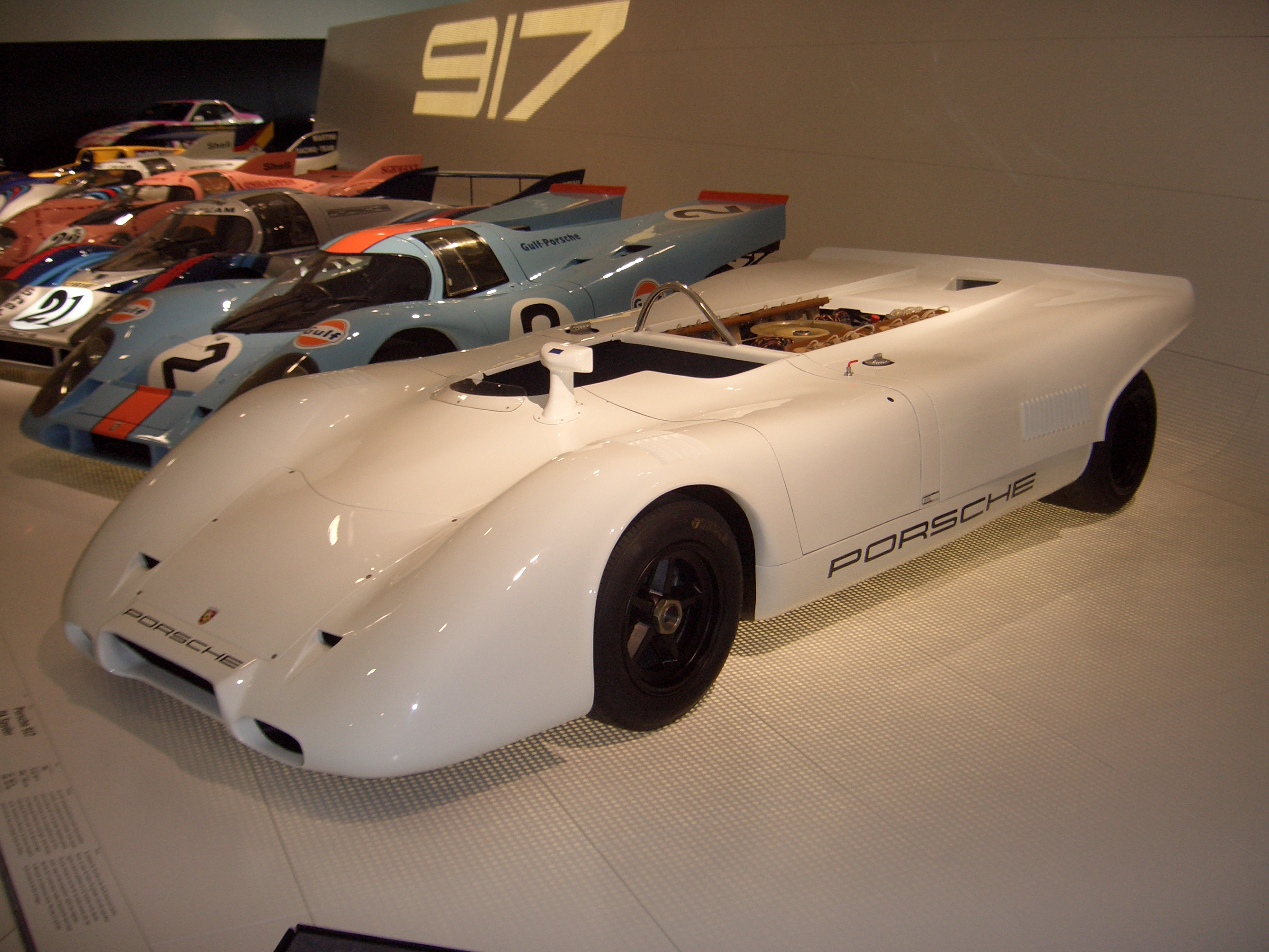 see filename for despcription - seen at PORSCHE MUSEUM in Stuttgart, Germany